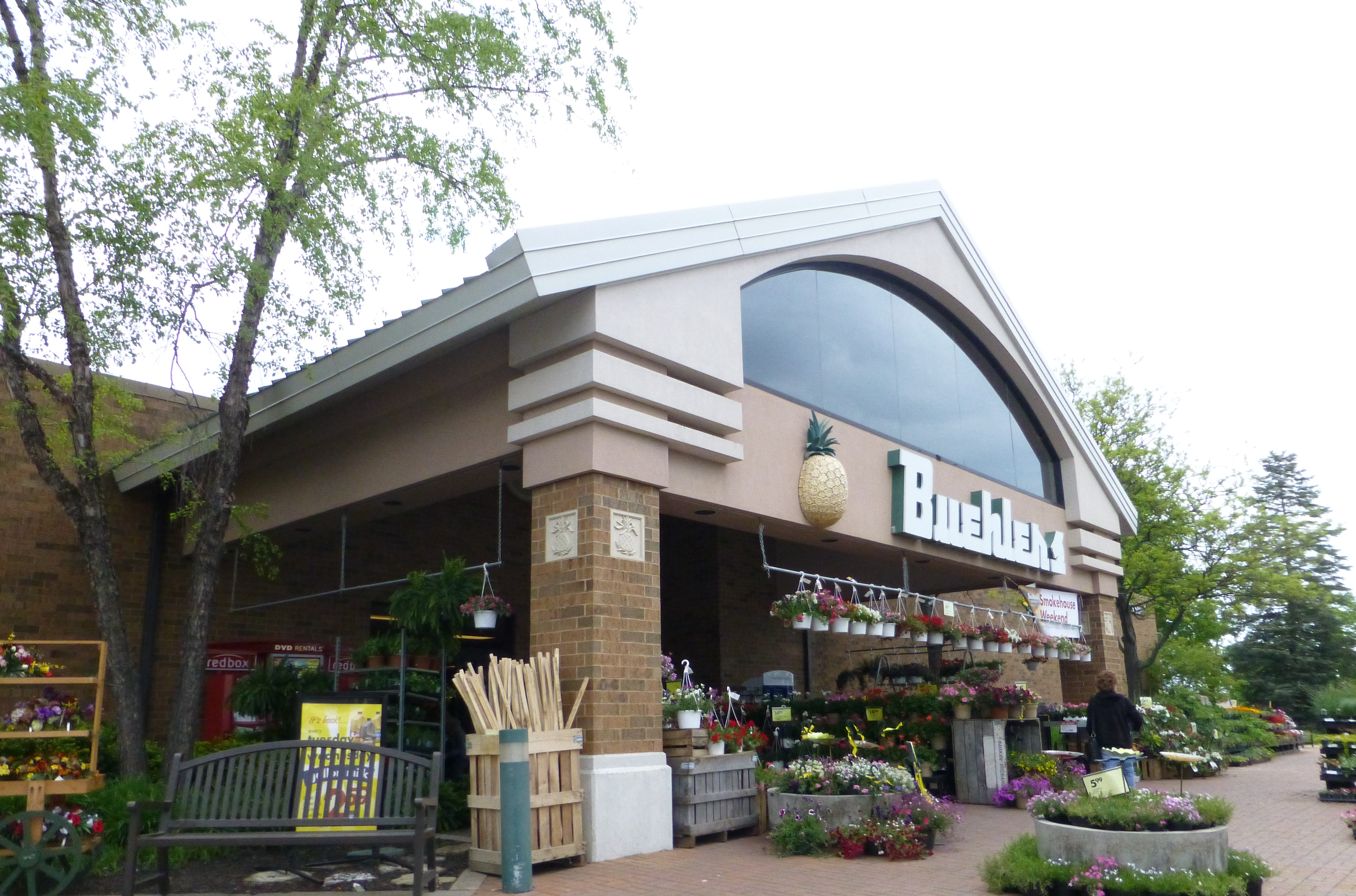 A typical Buehler's Food Market in Wooster, Ohio.